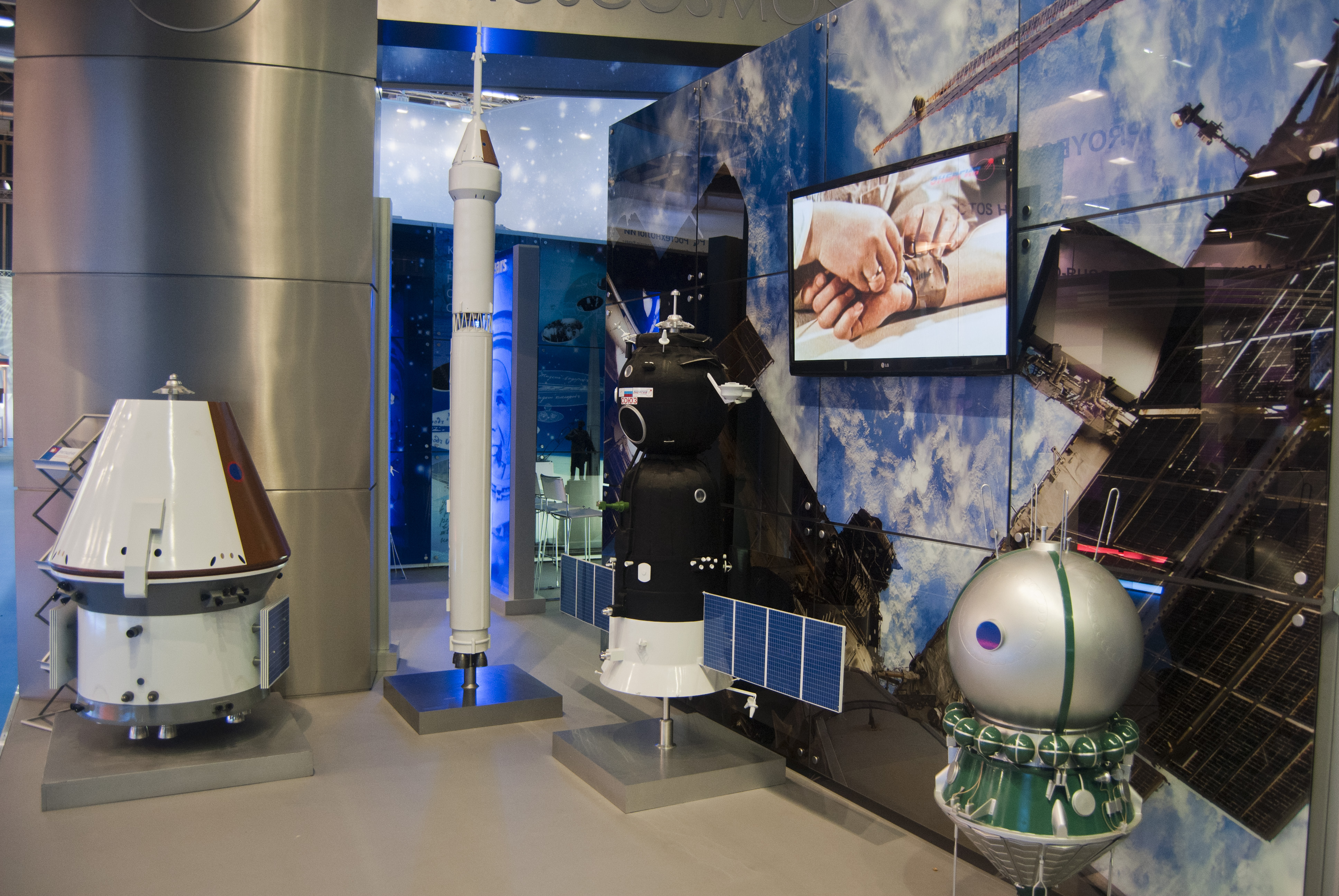 Models of Russian PPTS spacecraft, Zenit rocket for PPTS launch, as well as Soyuz and Vostok manned capsules during "La Semana de Espacio", in IFEMA, Madrid, 05.2011